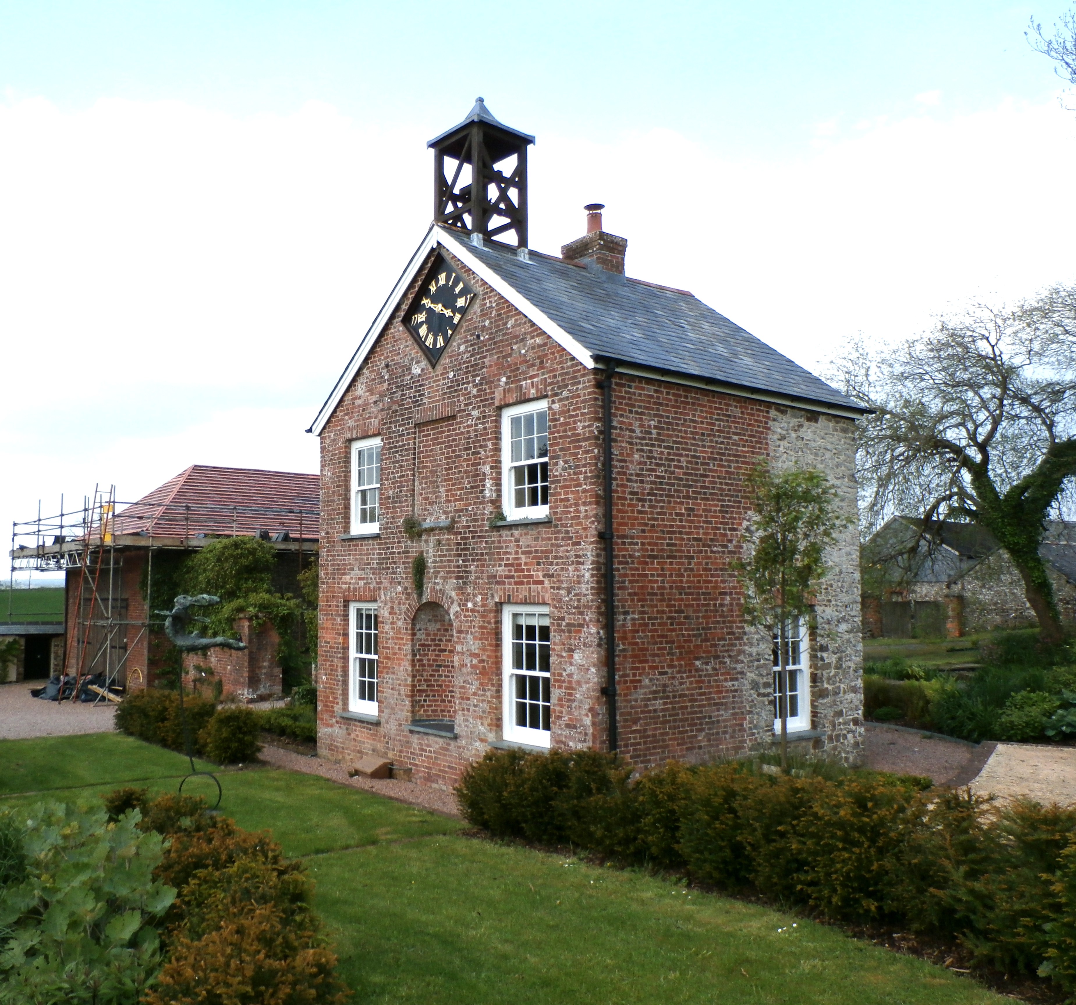 1711 Clockhouse, Hudscott, Chittlehampton, Devon